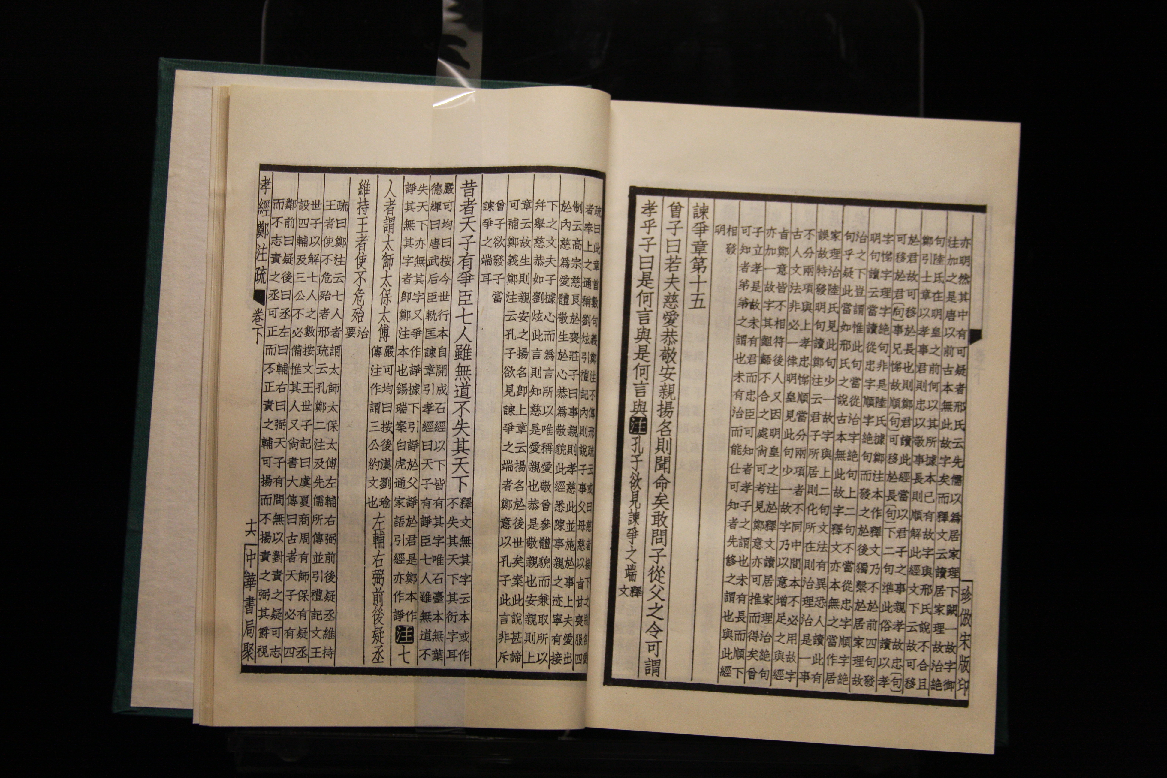 Liji (Book of Rites). Östasiatiska Museet, Stockholm.